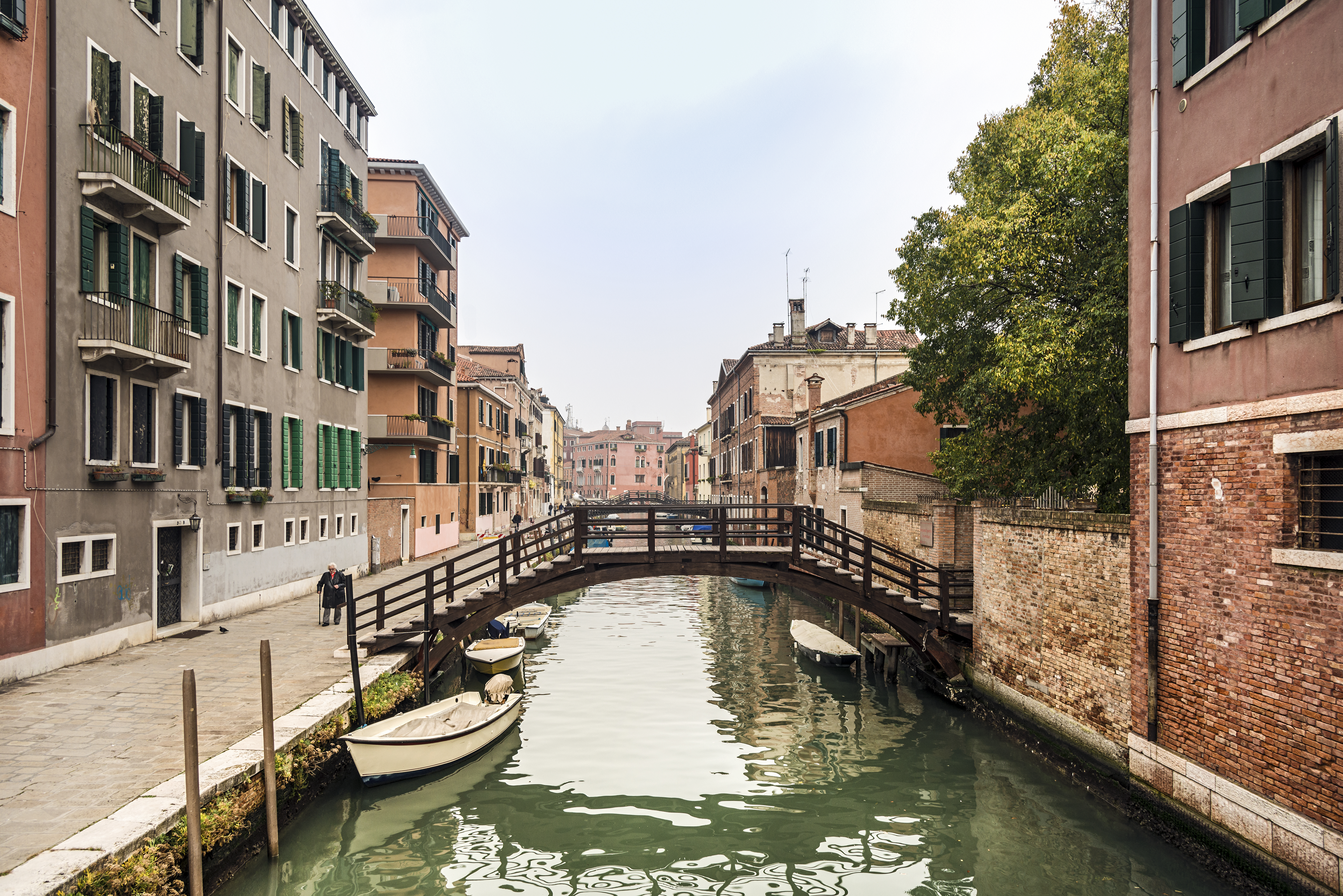 Rio del Tentor - Venice